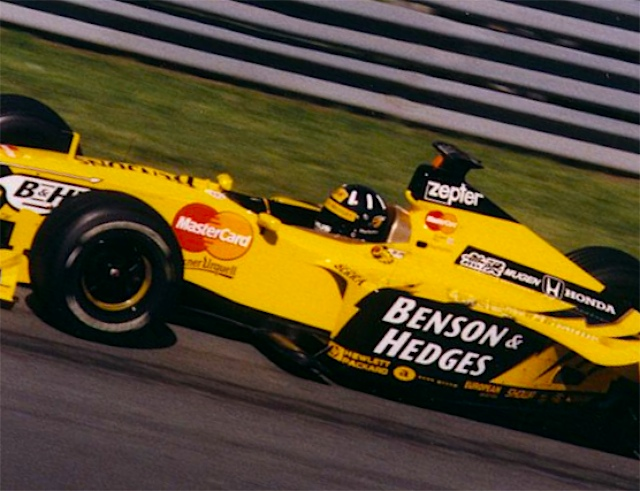 Damon Hill driving for Jordan Grand Prix at the 1999 Canadian Grand Prix.